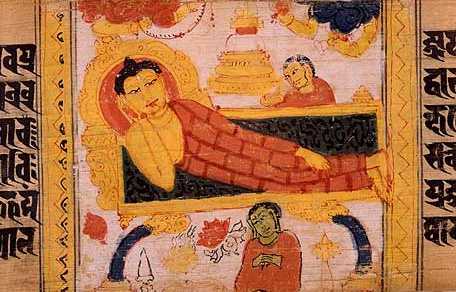 Painting of the parinirvana of Gautama Buddha. Sanskrit Astasahasrika Prajnaparamita Sutra manuscript written in the Ranjana script. Nalanda, Bihar, India. Circa 700-1100 CE.